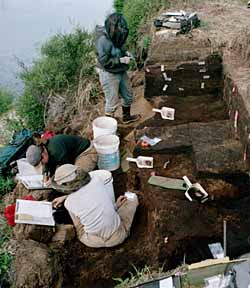 An archaeological team excavates at the Alagnak River Site (DIL-161) in Katmai National Park and Preserve.